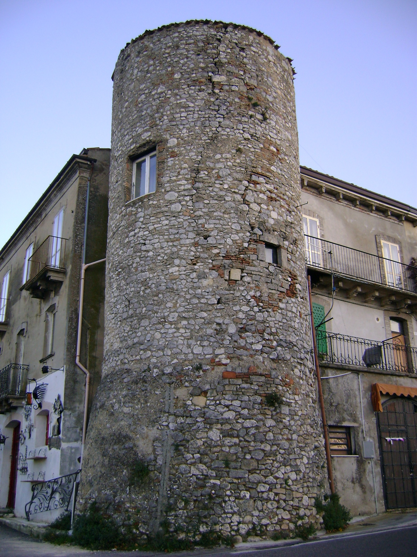 Torre Adriana, Guardiagrele, province of Chieti, Abruzzo